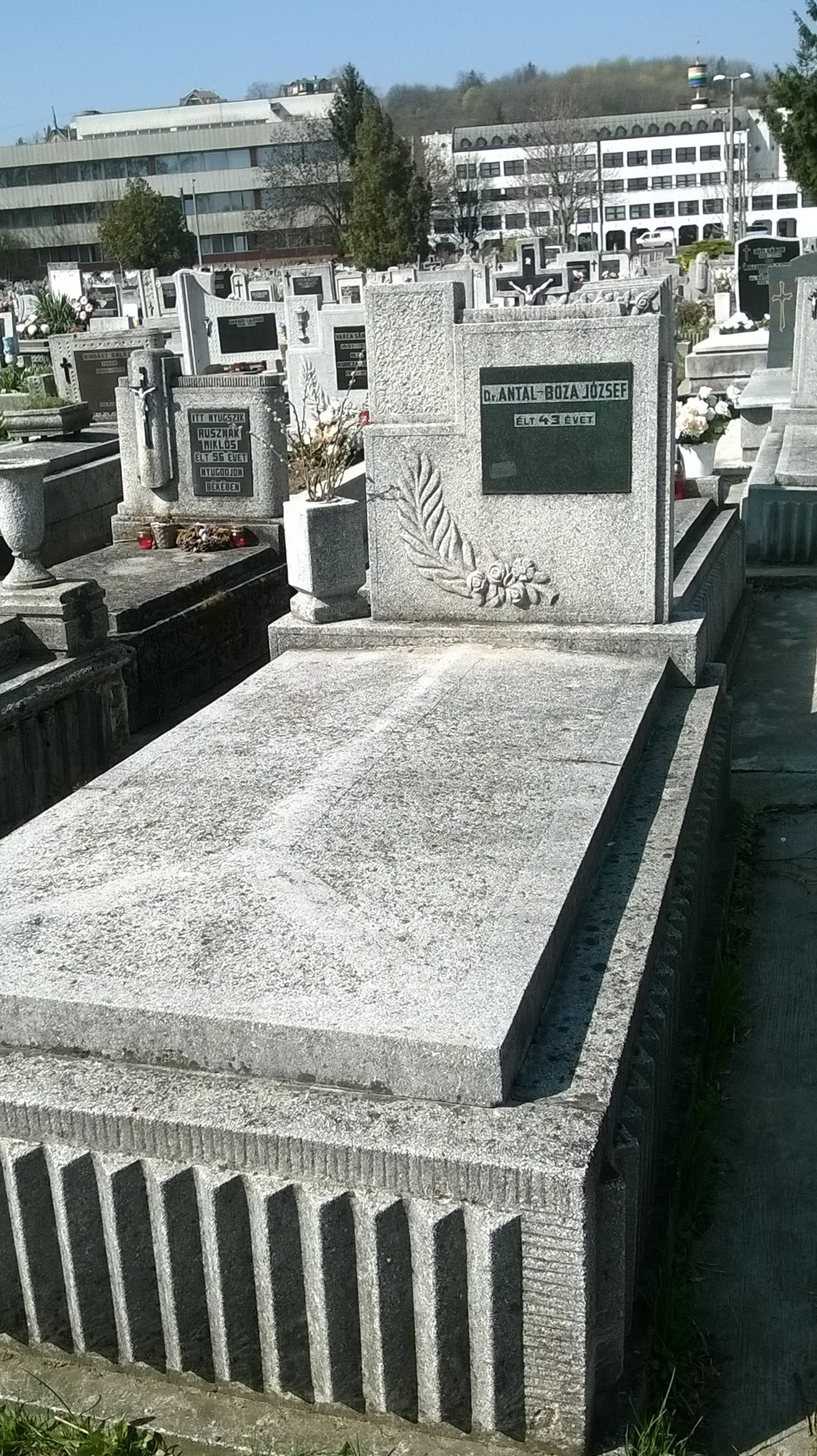 Tomb of József Antal Boza, Cemetery of Mindszent, Miskolc